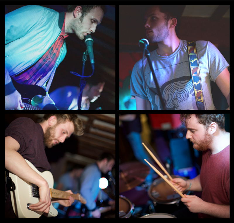 Billy Bibby & The Wry Smiles, Billy Bibby, Matt Thomas, Rob Jones, and Michael Pearce play their first show at Telford's Warehouse in Chester, UK on November 28, 2015